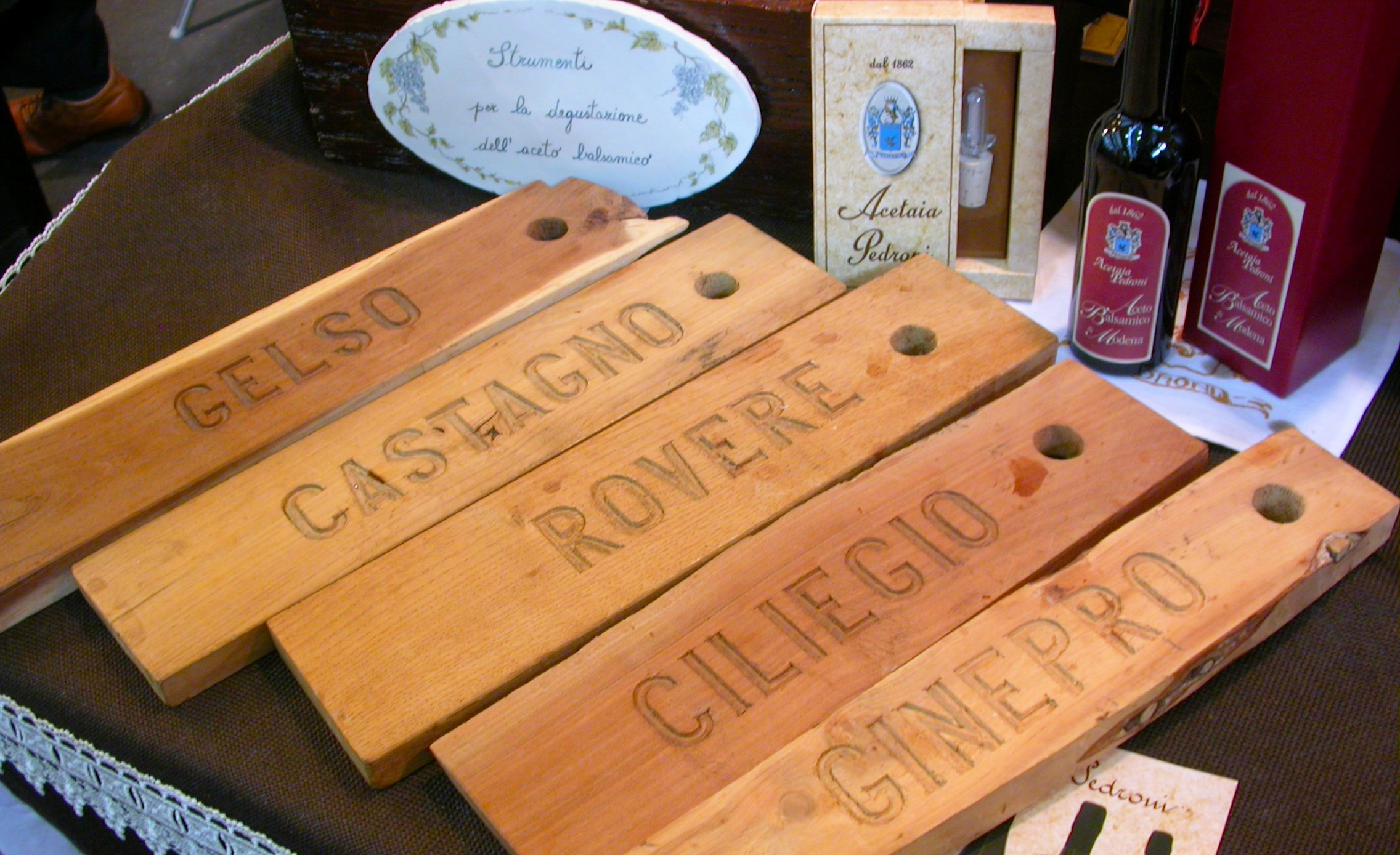 Balsamic vinegar: quality of wood used in the aging – Italy.